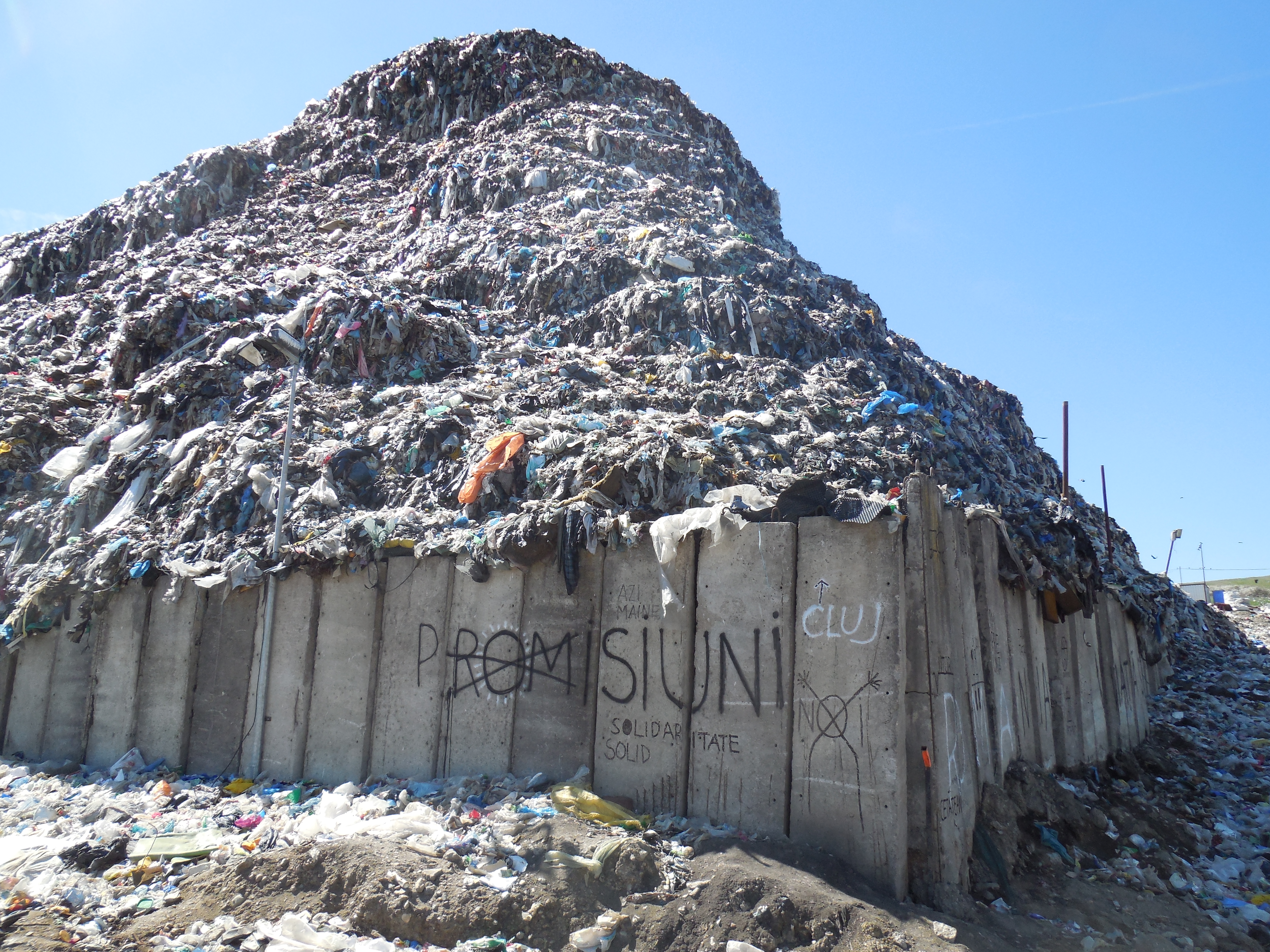 Favella nearby Cluj.